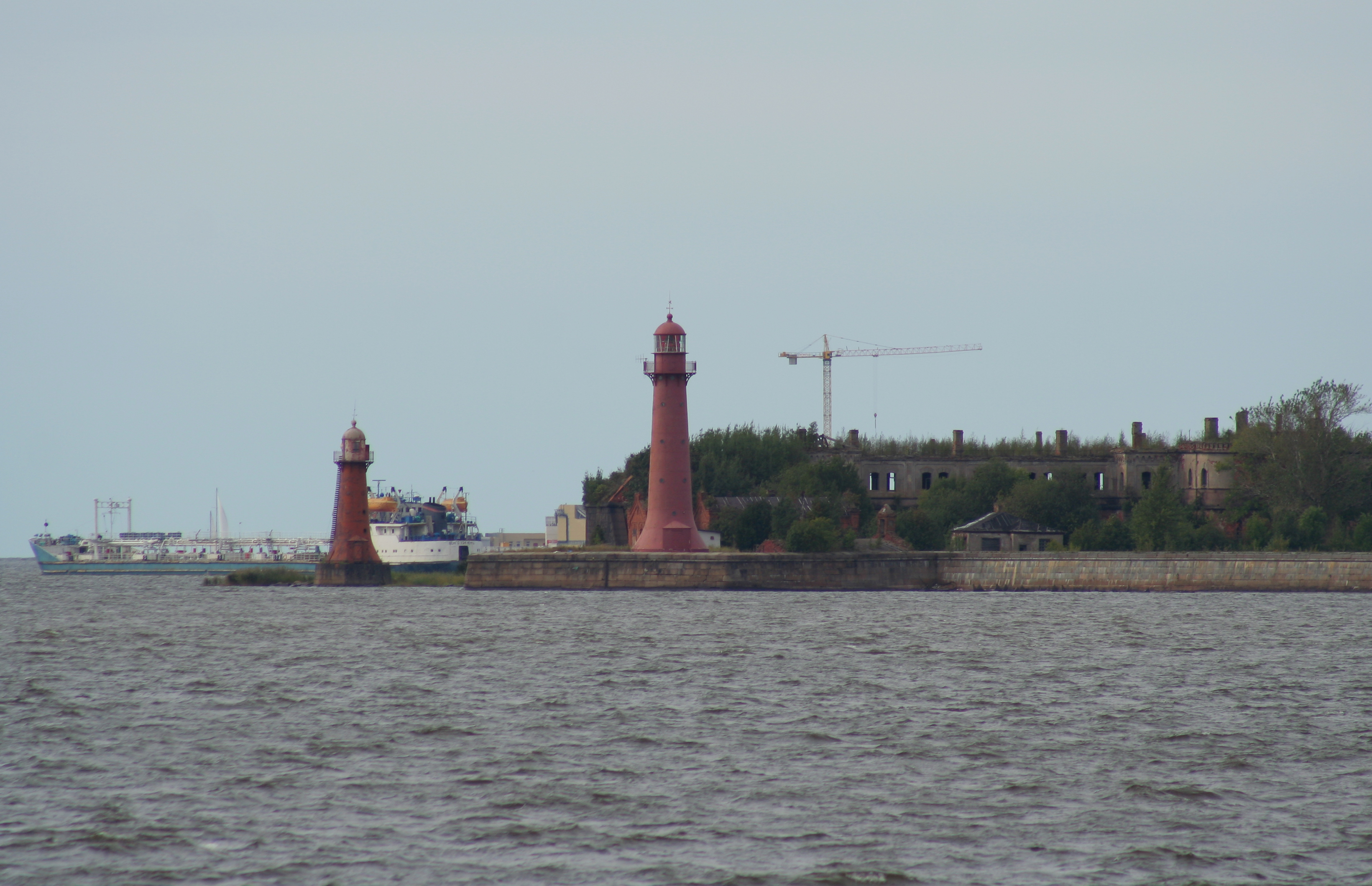 Saint Petersburg, Kronstadt. Views of the sea port.